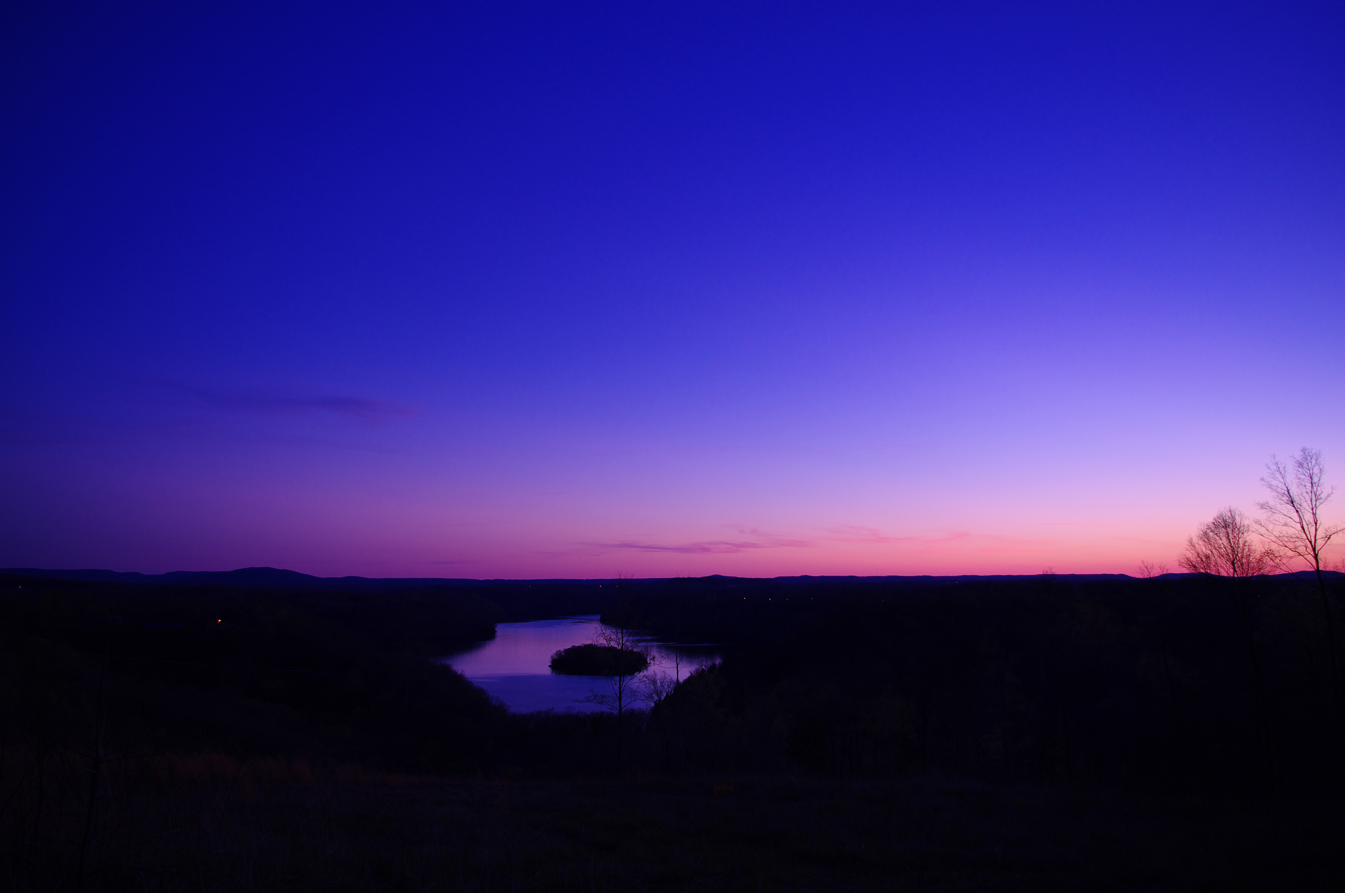 Dale Hollow Lake (Obey River), viewed from an overlook along Tennessee State Highway 111, near Byrdstown in Pickett County, Tennessee, USA.